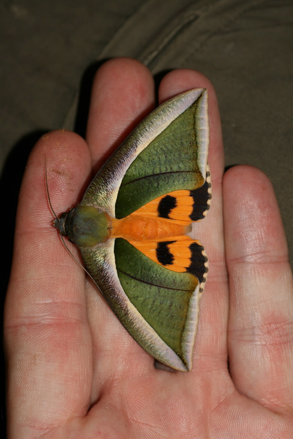 Malaysia, Fraser's Hill March, 2009